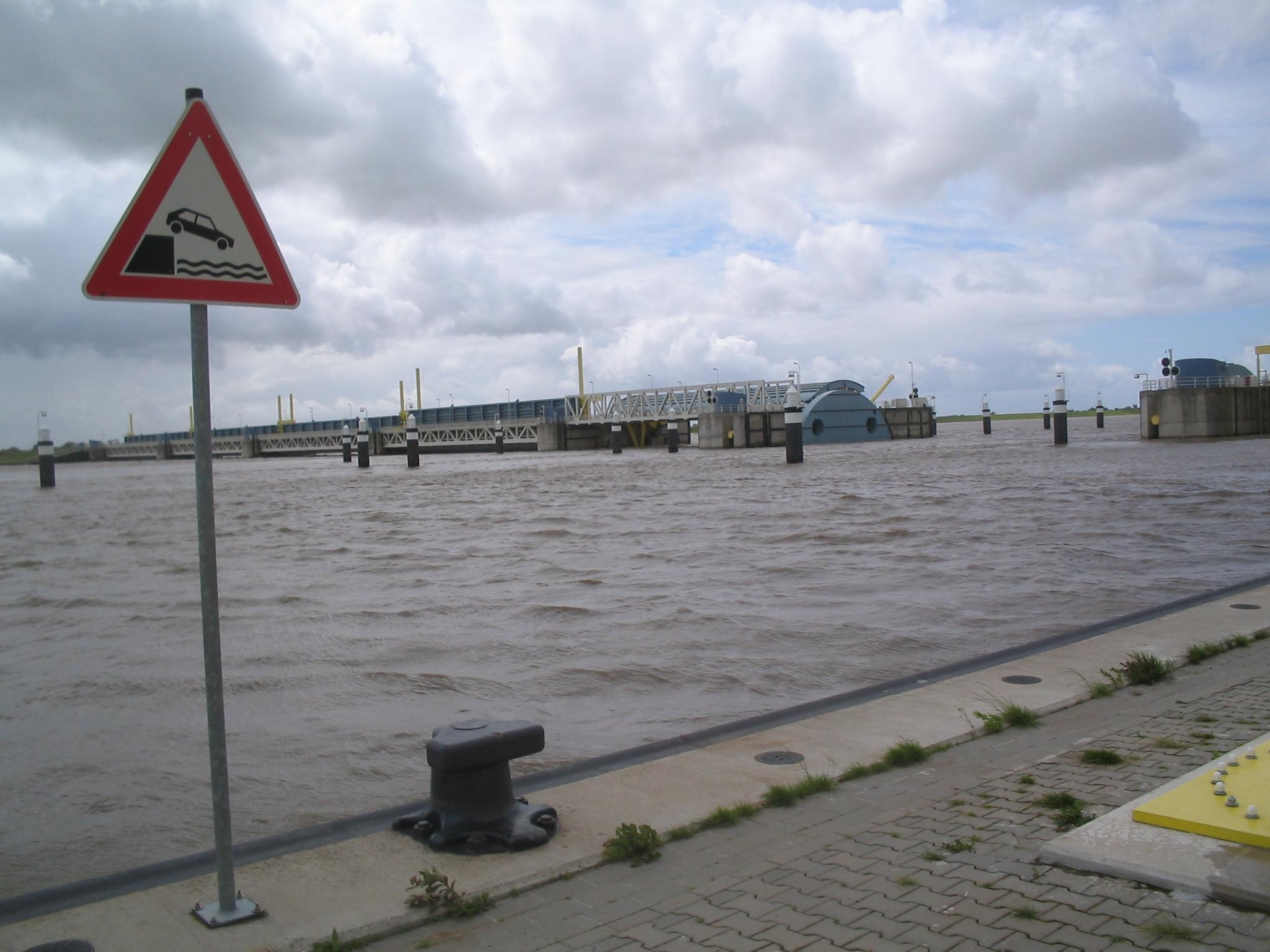 Tidal barrier of the Ems river near Emden, seen from north bank in Gandersum (Community of Moormerland)